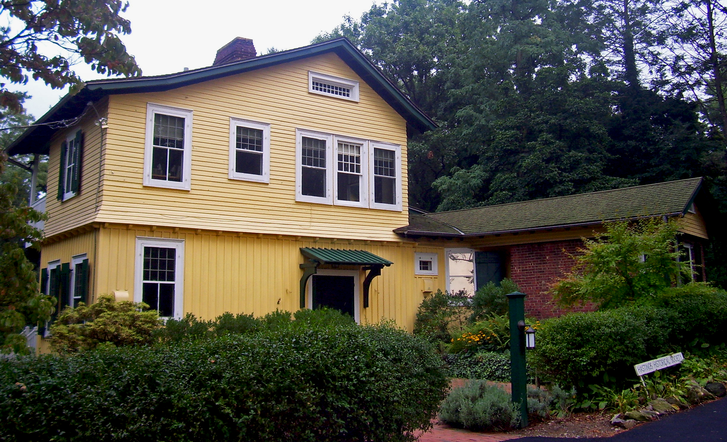 Henry Draper Observatory of Henry Draper and John William Draper, a National Historic Landmark in Hastings, NY, USA. Here he took the first recognizable photos of the moon through a telescope. Currently used as museum and headquarters for the local historical society.